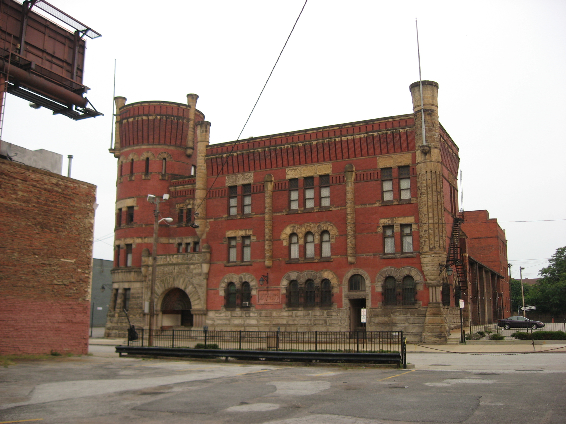 View of Cleveland Grays Armory, a National Register of Historic Places property at 1234 Bolivar Road in downtown Cleveland, Ohio, United States.